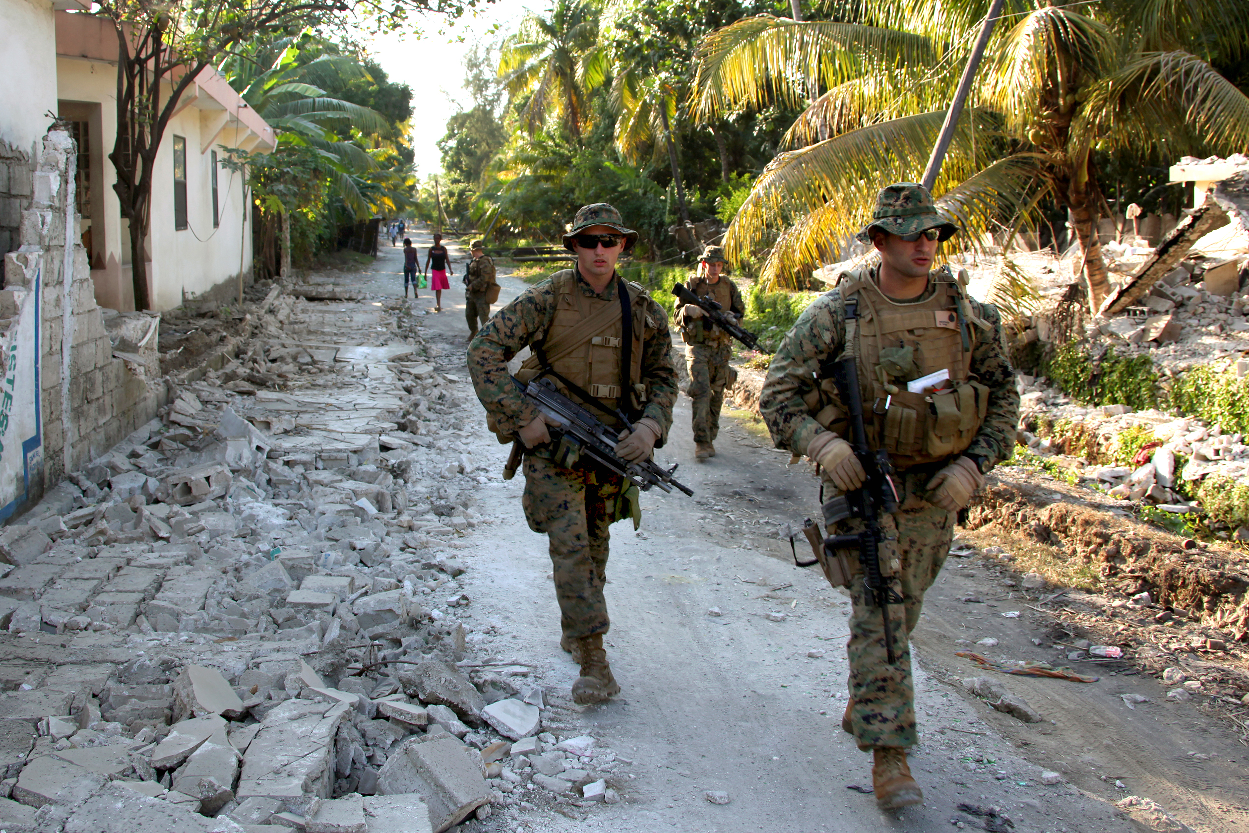 U.S. Marines conduct a survey of the area in Leogane, Haiti, Jan. 24, 2010. The Marines flew into the area earlier in the day, establishing a new humanitarian aid receiving area for Haitian earthquake victims at a missionary compound.